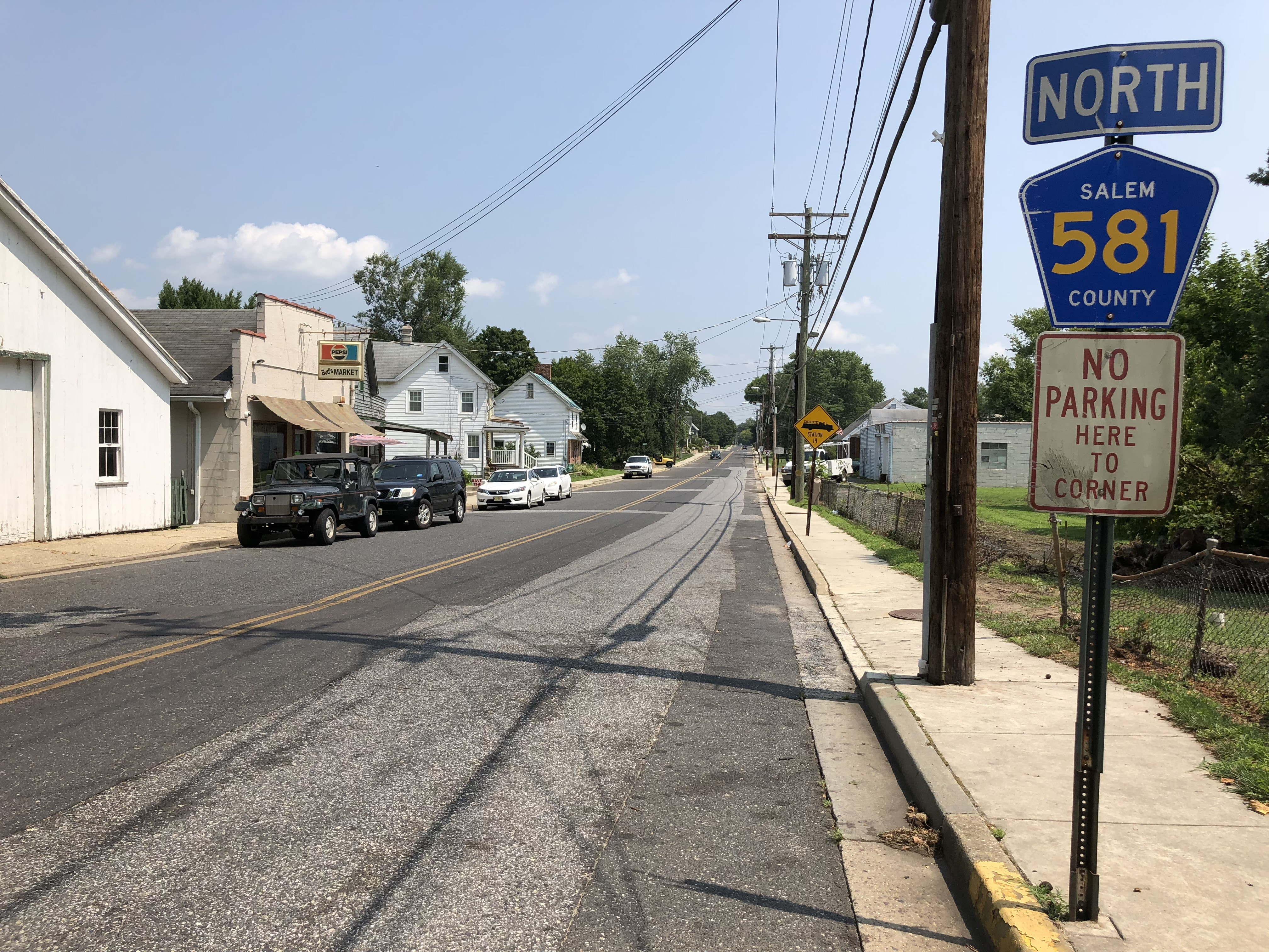 View north along Salem County Route 581 (Main Street) just north of Salem County Route 540 (Greenwich Street) in Alloway Township, Salem County, New Jersey